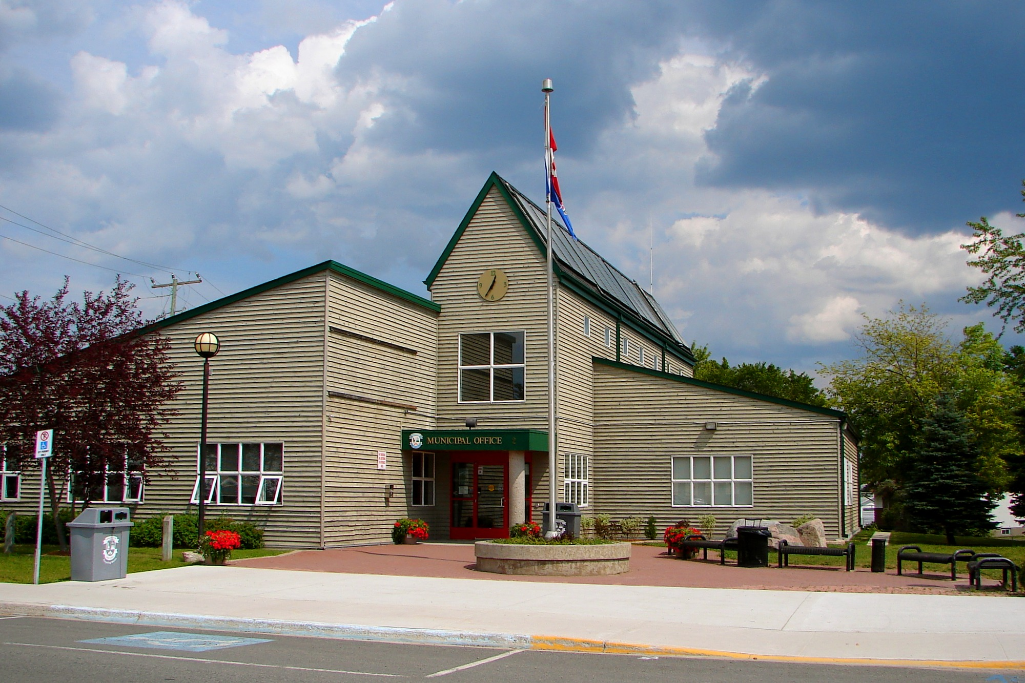 Town Hall of Red Lake in Balmertown, Ontario, Canada